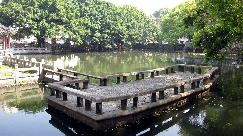 Ouye Pond, Fuzhou